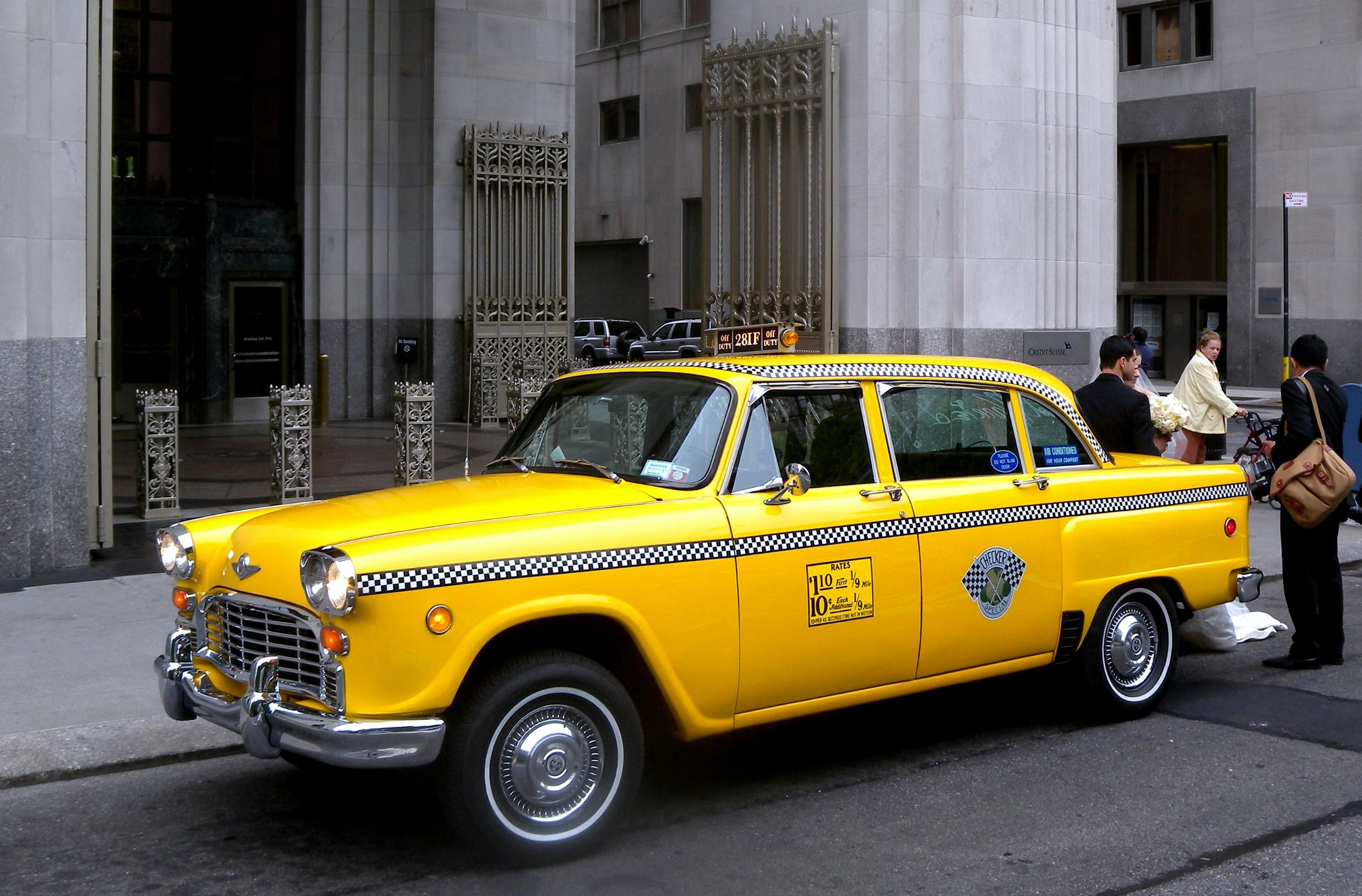 Looking south from Madison Avenue at restored Checker A-11 Cab being used as a prop for wedding photography in front of the Metropolitan Life North Building on a cloudy afternoon.